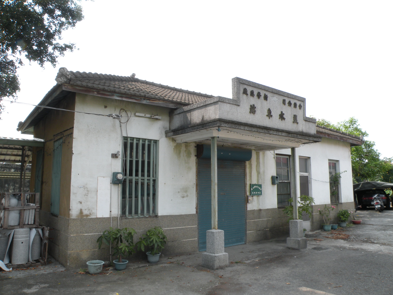 Yanshuei Railway Station, Yanshuei, Tainan, Taiwan 布袋線鹽水車站 布袋線塩水駅